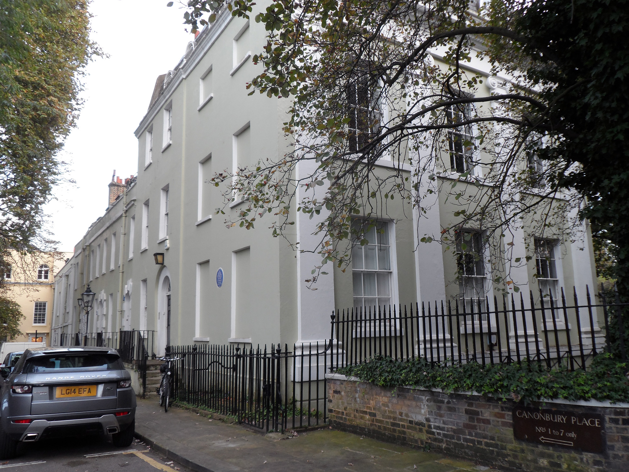 Former home of architect Sir Basil spence